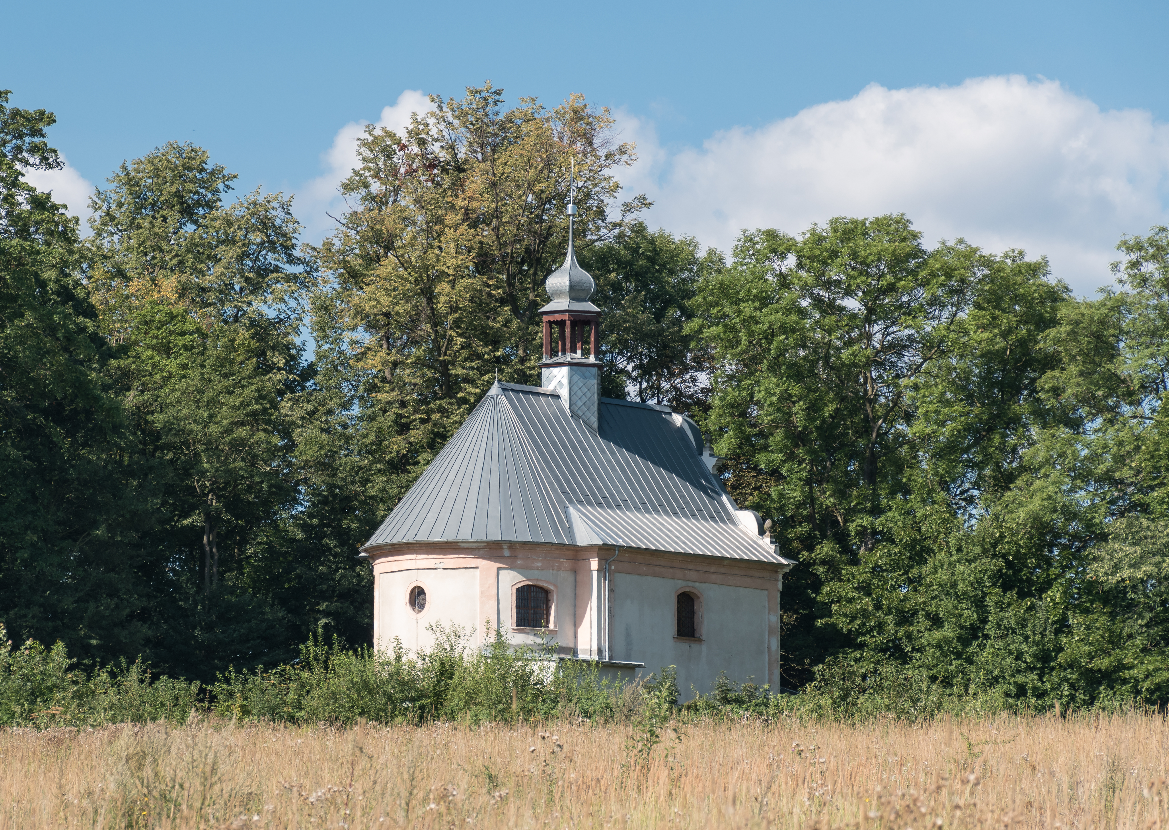 Saint Florian chapel in Bystrzyca Kłodzka Wikidata has entry Q16565391 with data related to this item.